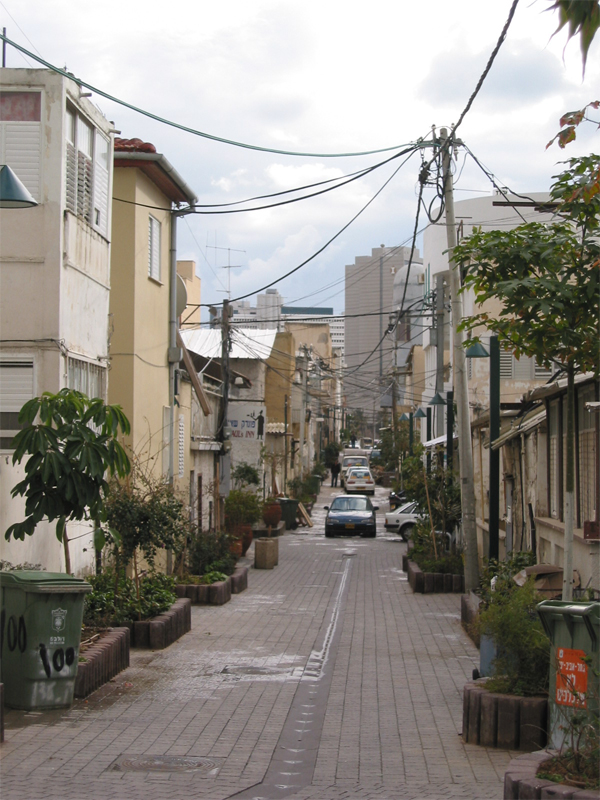 Kerem Hatemanim neighbourhood, Tel Aviv